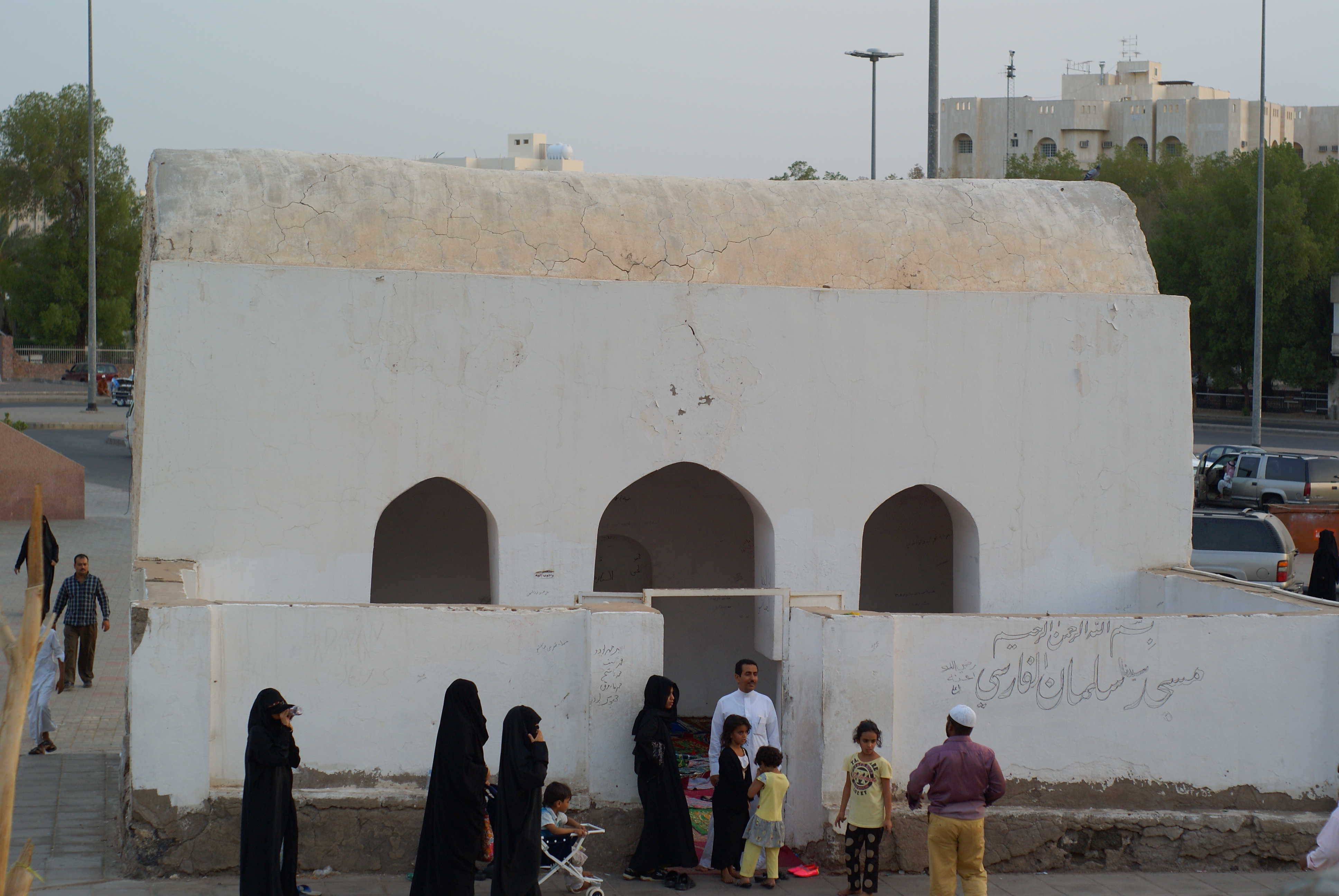 One of the seven of the Khandaq area mosques. This one has been kept. But it is very neglected. See the writings on the walls.